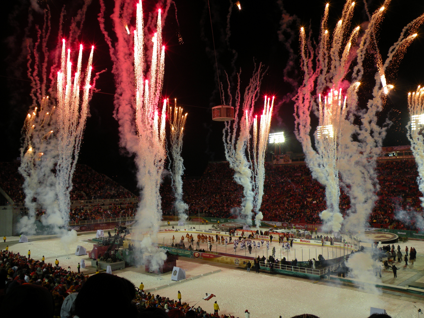 Fireworks following the 2011 Heritage Classic in Calgary.